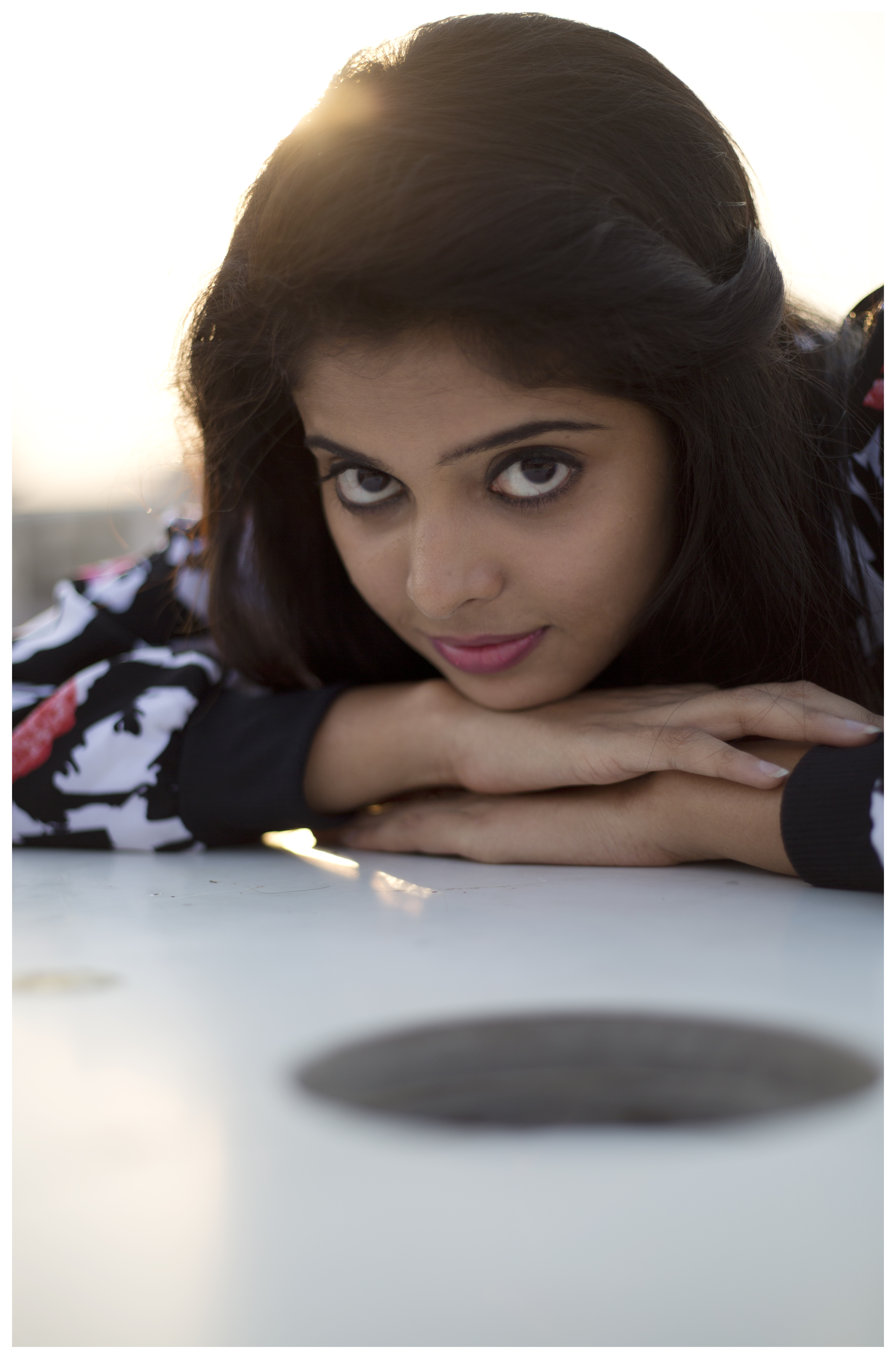 Photo of Shravya Boini, south indian actress.